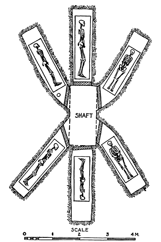 Mastaba 954